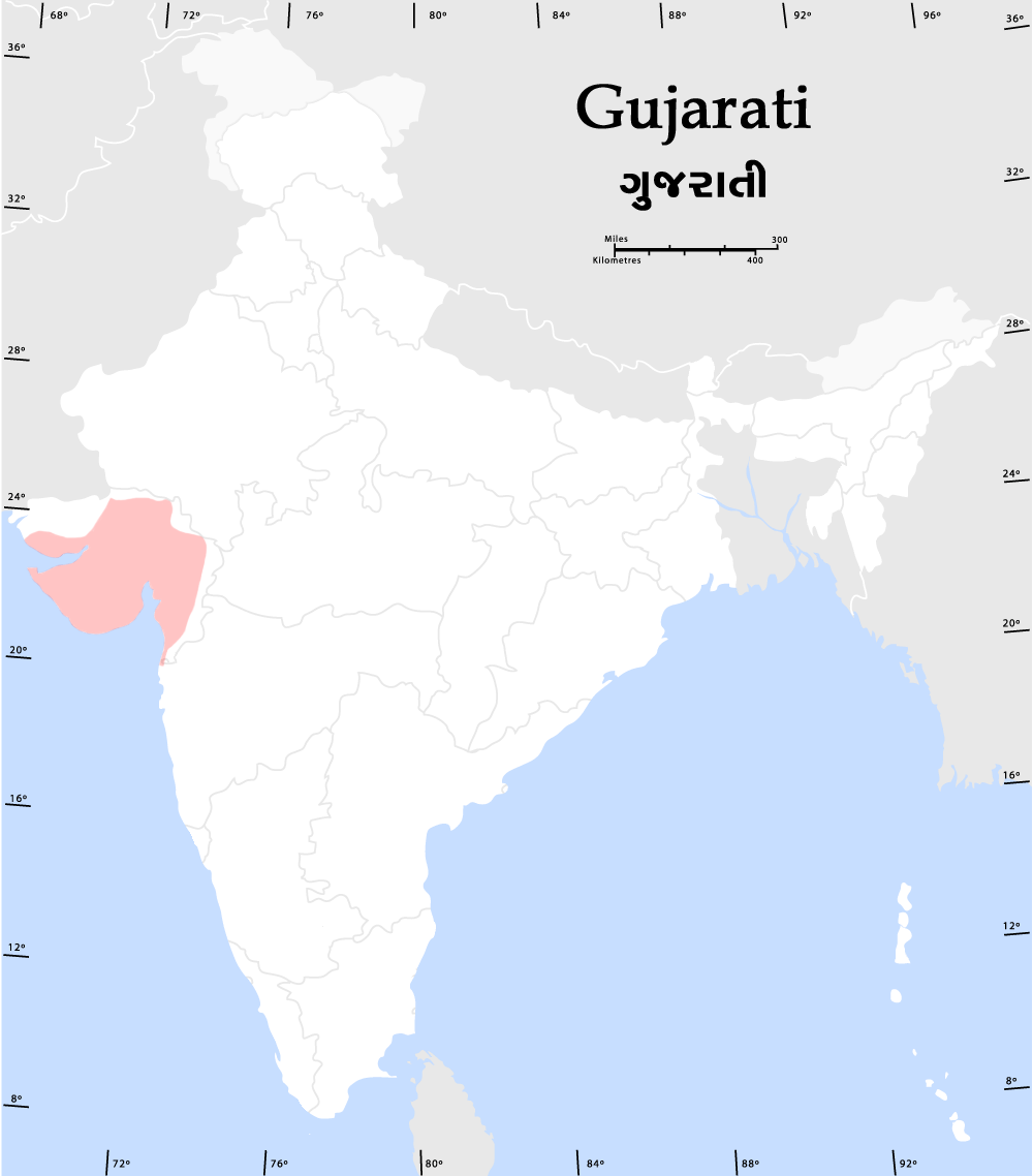 A map of the distribution of native Gujarati speakers in India